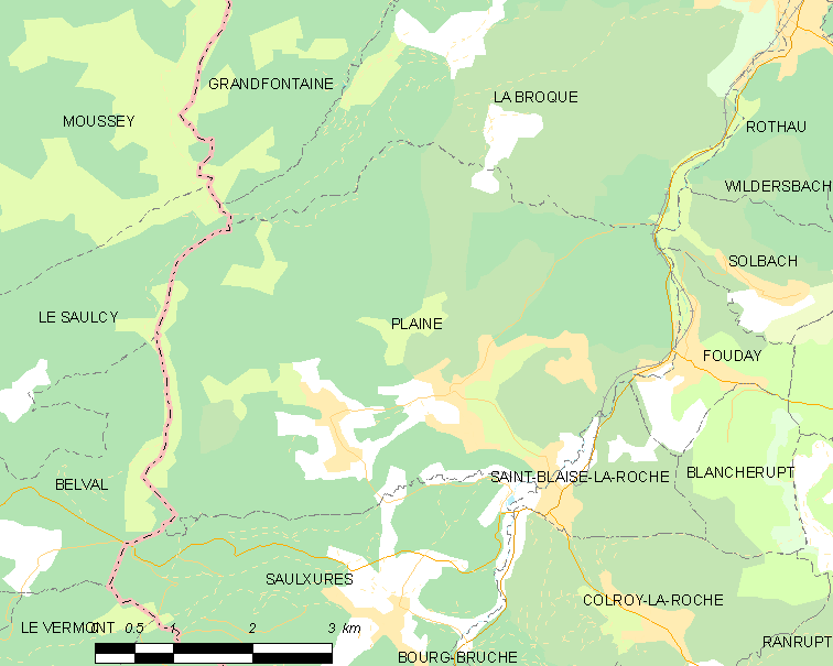 Map of French municipality